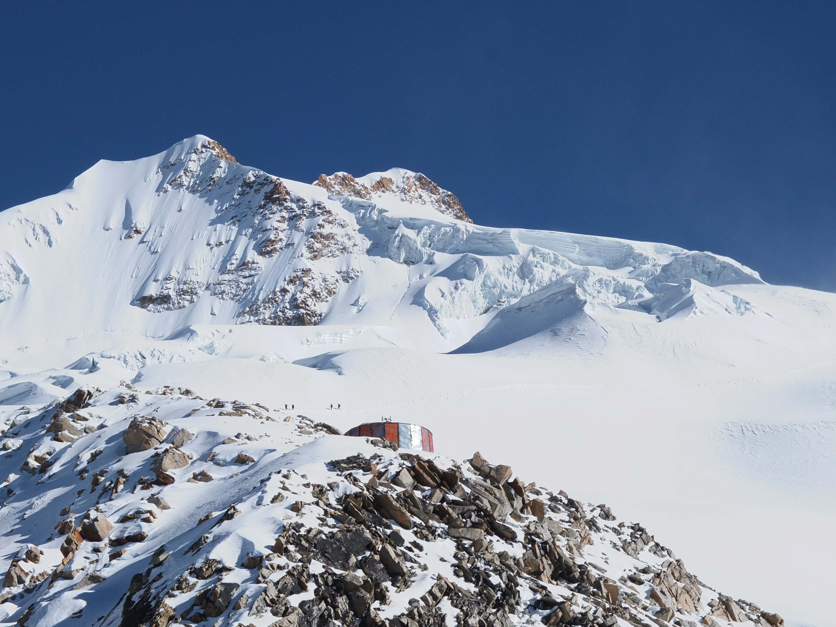 Ascent to Huayna Potosí as seen from hut "Rock Camp".